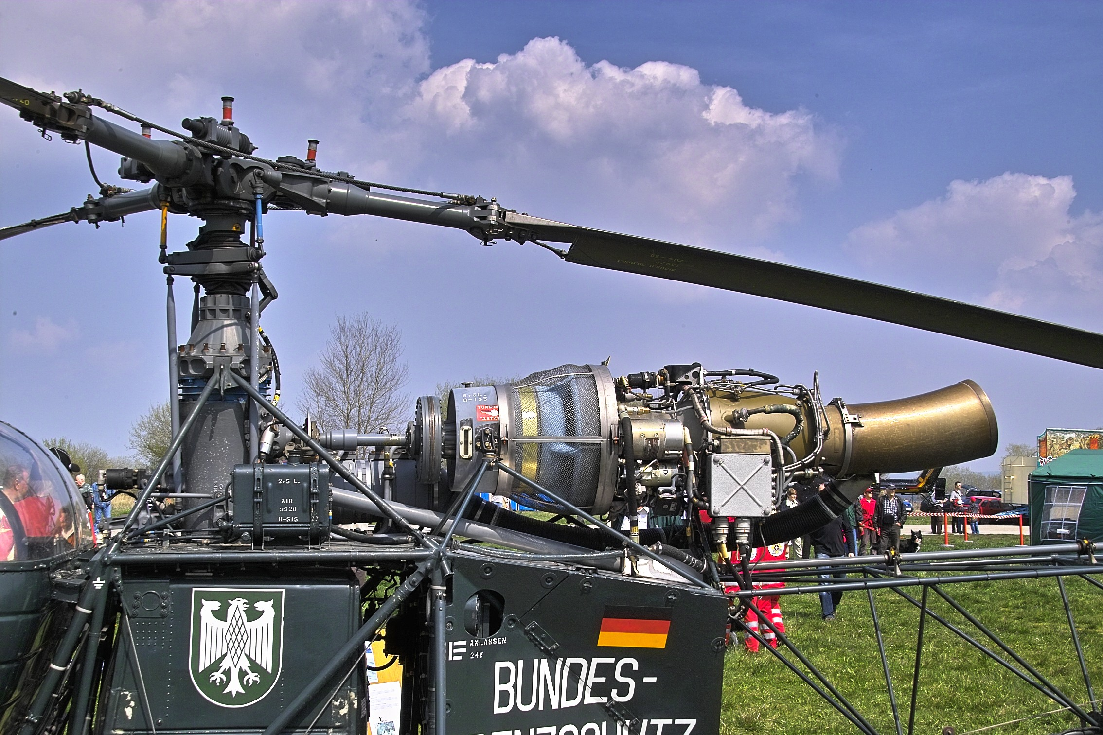 Turboshaft engine Turboméca Astazou II AF of a SA 318 C Alouette II (Aérospatiale Alouette II) helicopter